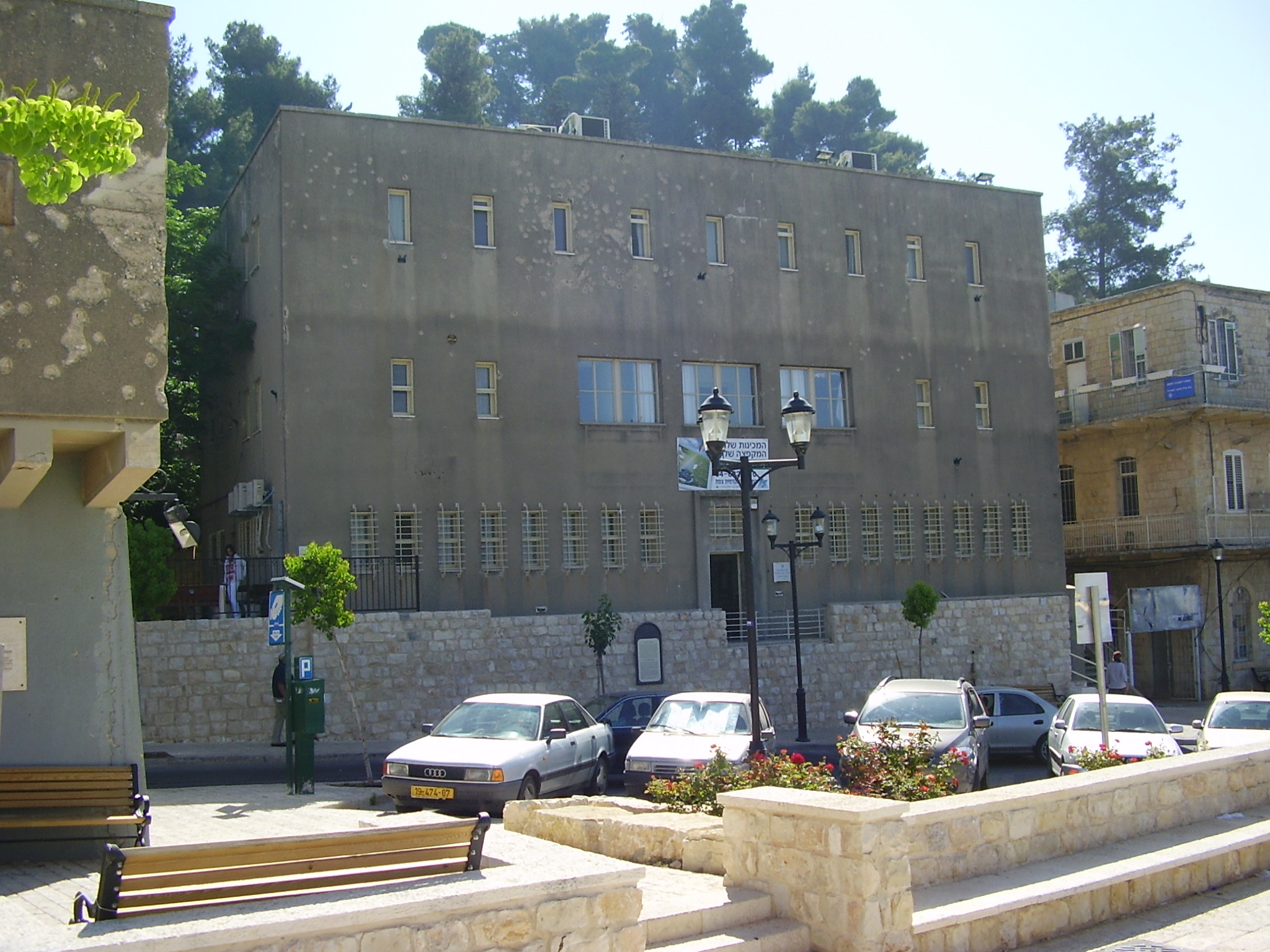 British Police Station in Safed, Israel